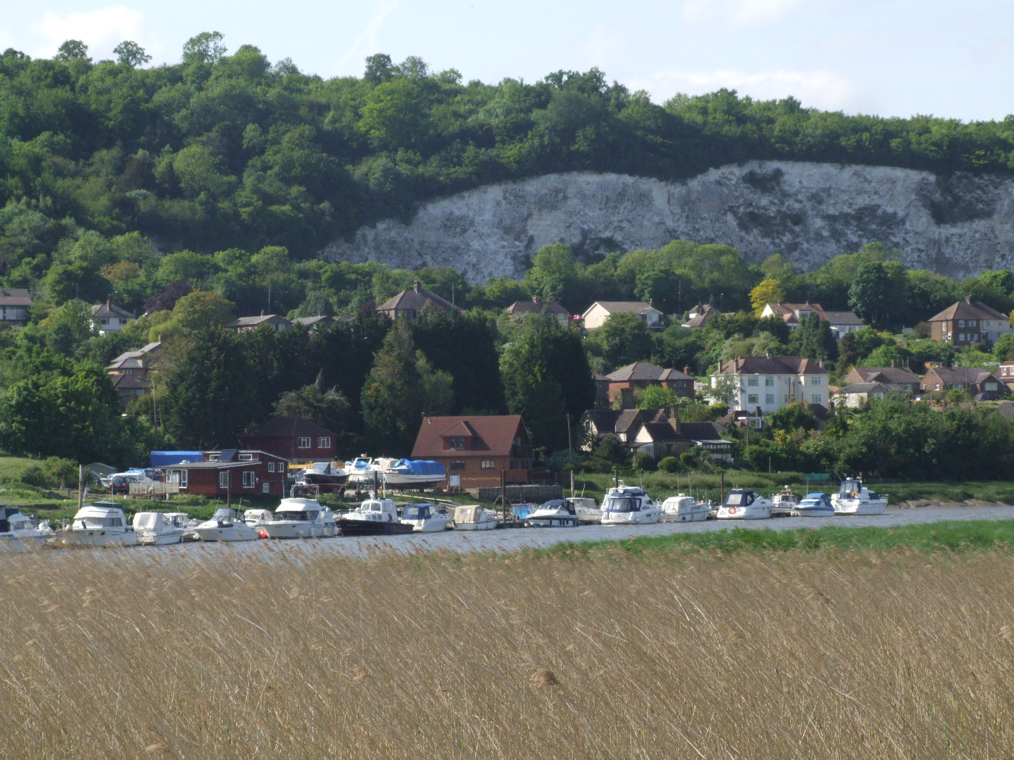 Halling, Kent on the River Medway . From Wouldham Marshes, over the Medway to houses in North Halling, with cliffs of Bore's Hole and May Wood to the top left. - OpenStreetMap (Info)